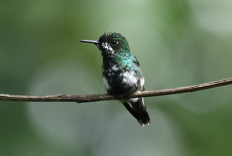 A female Green Thorntail (Discosura conversii) at Milpe Bird Sanctuary, NW Ecuador 3/10/2007